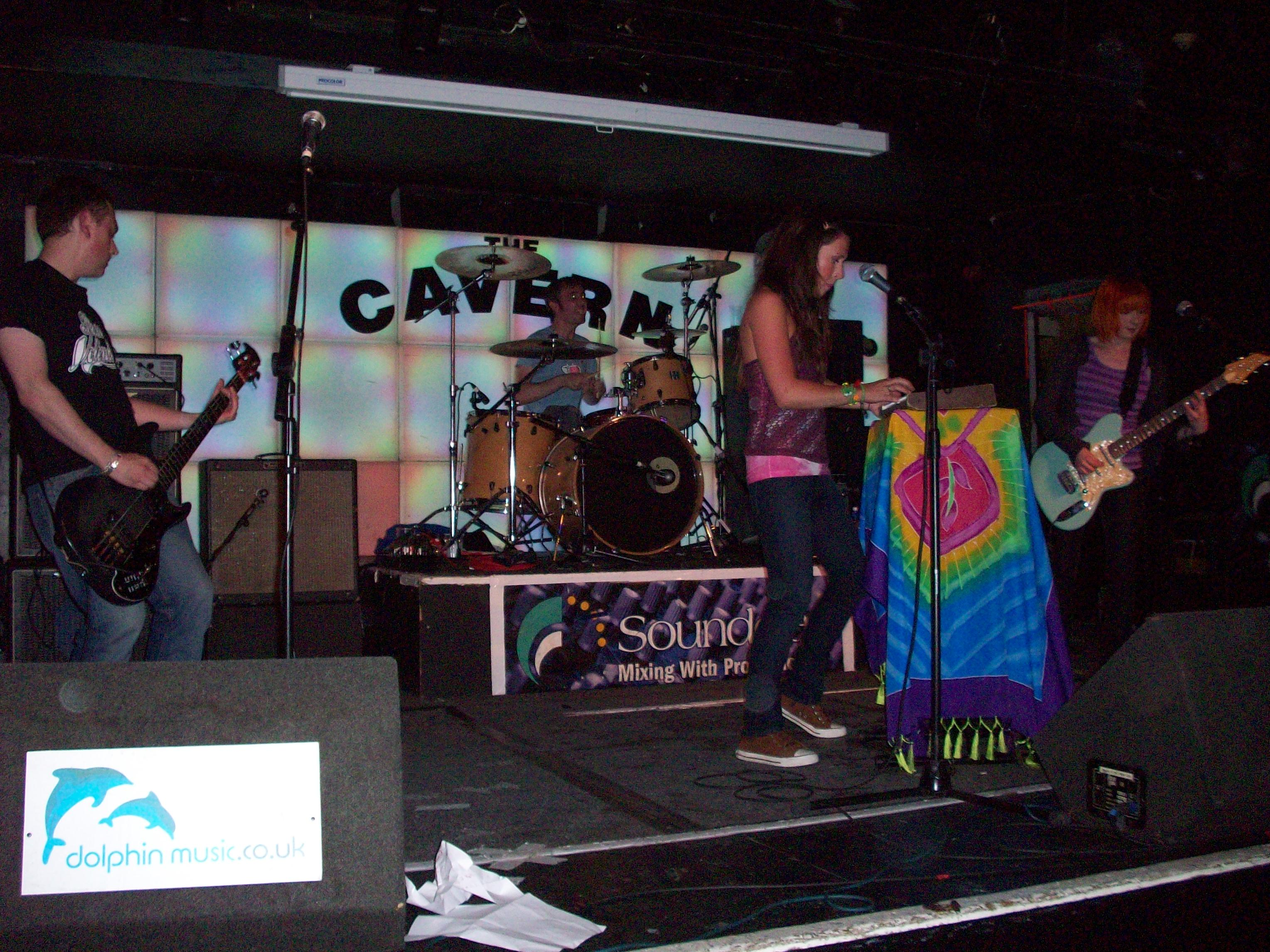 The band play at the home of The Beatles on a rare UK trip.